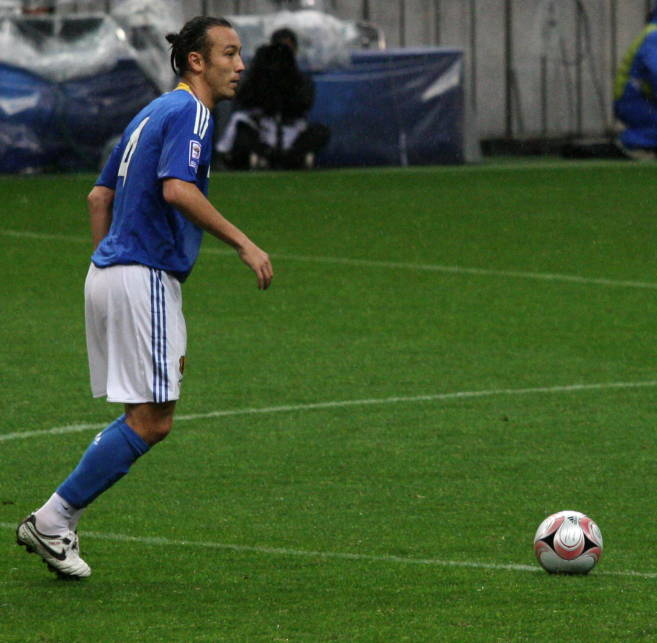 Tulio, during Japan's world cup qualifier against Bahrain on June 22, 2008